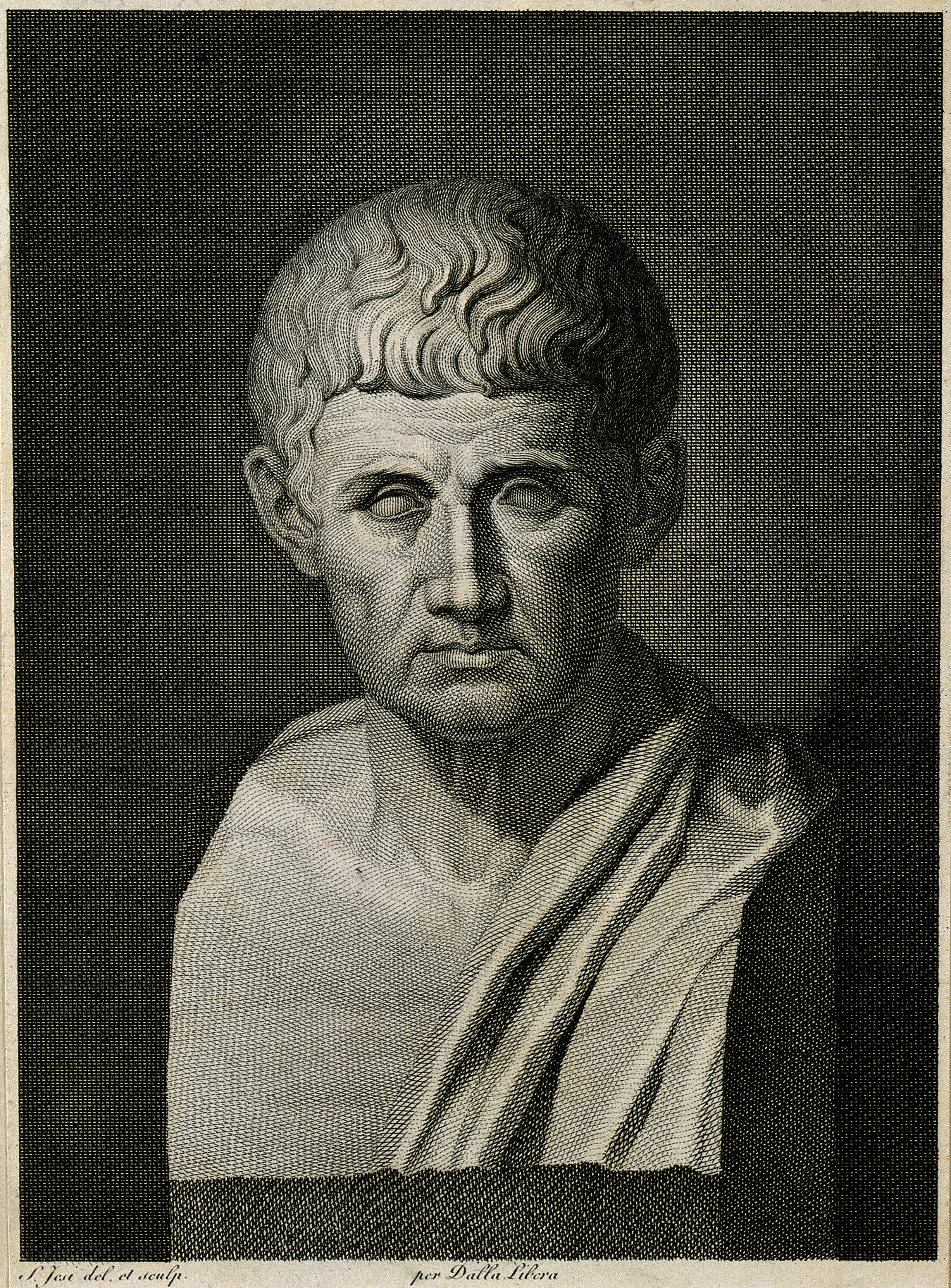 Aristotle. Line engraving by S. Jesi. Iconographic Collections Keywords: portrait prints; aristotle, 384-322 b.c.; engravings; Aristotle